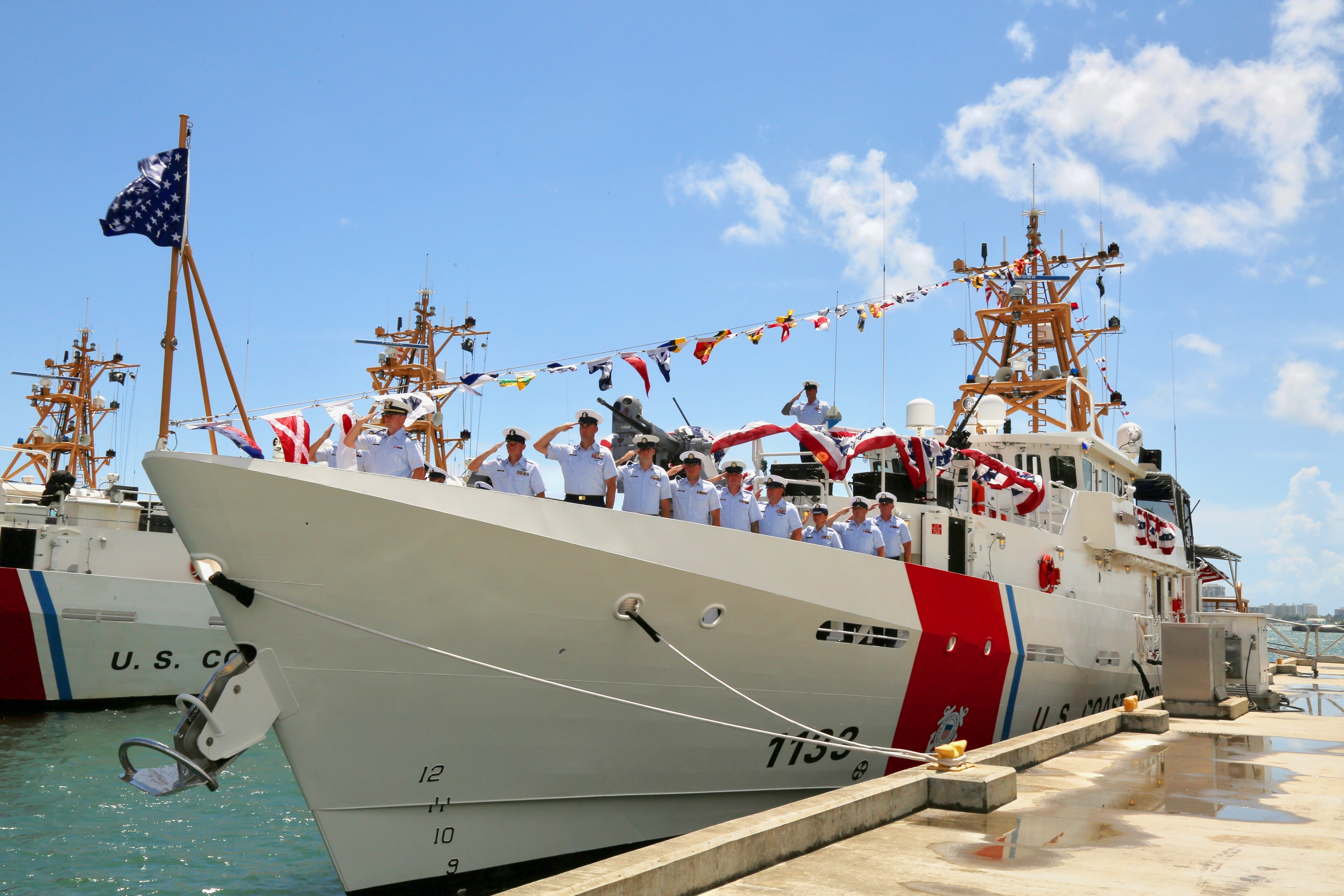 The crew of the Coast Guard Cutter Joseph Doyle (WPC-1133) bring’s the cutter to life during the ship’s commissioning ceremony held at Coast Guard Sector San Juan June 8, 2019. The Doyle is the thirty third fast response cutter to be commissioned in the Coast Guard and the seventh to be assigned and homeported in Sector San Juan. (Coast Guard photo by Seaman Erik Villa Rodriguez VIRIN = 190608-G-YF993-1011